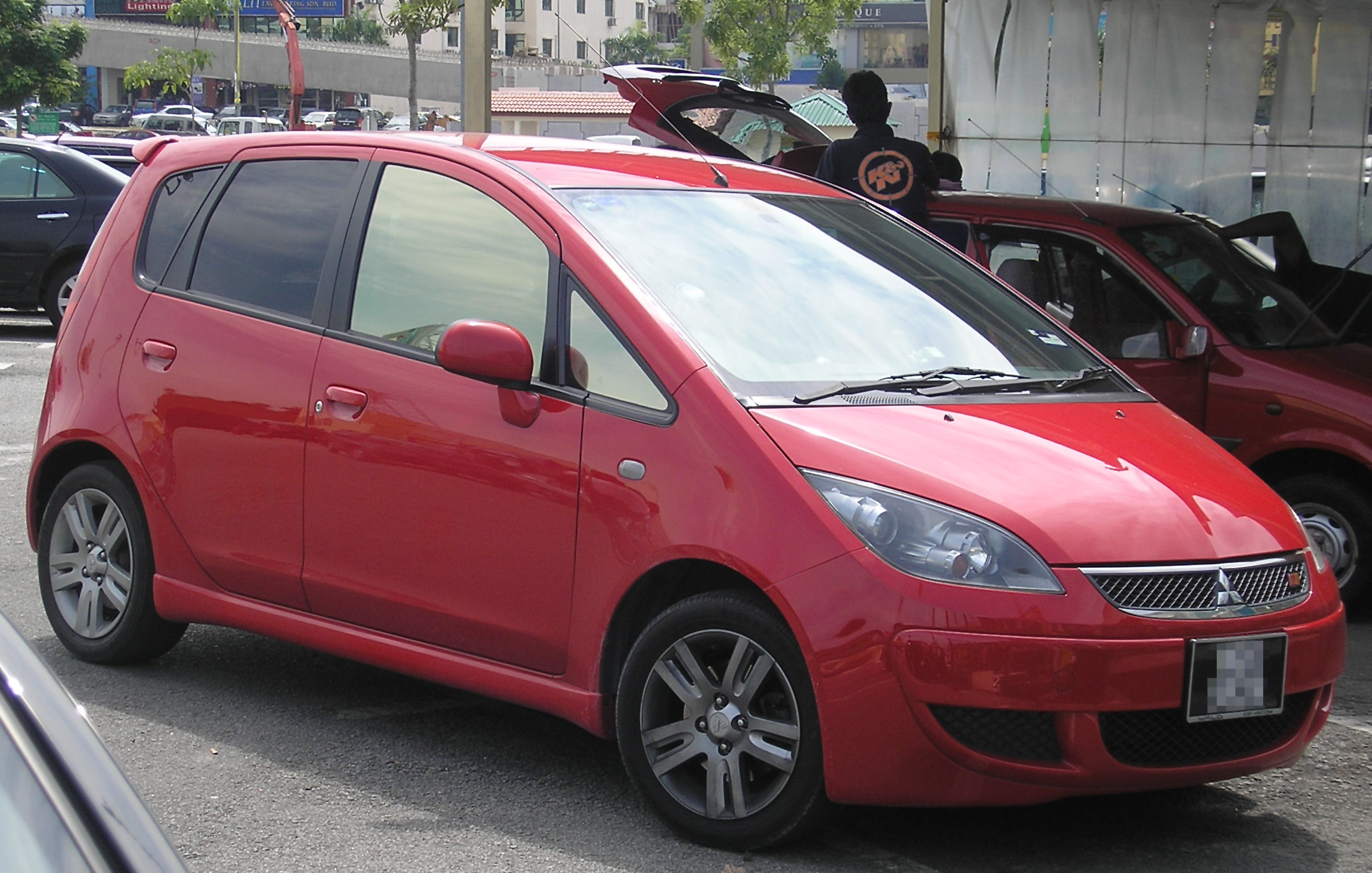 Front quarter view of a WALD variant, 2003-based Mitsubishi Colt, in Serdang, Selangor, Malaysia.